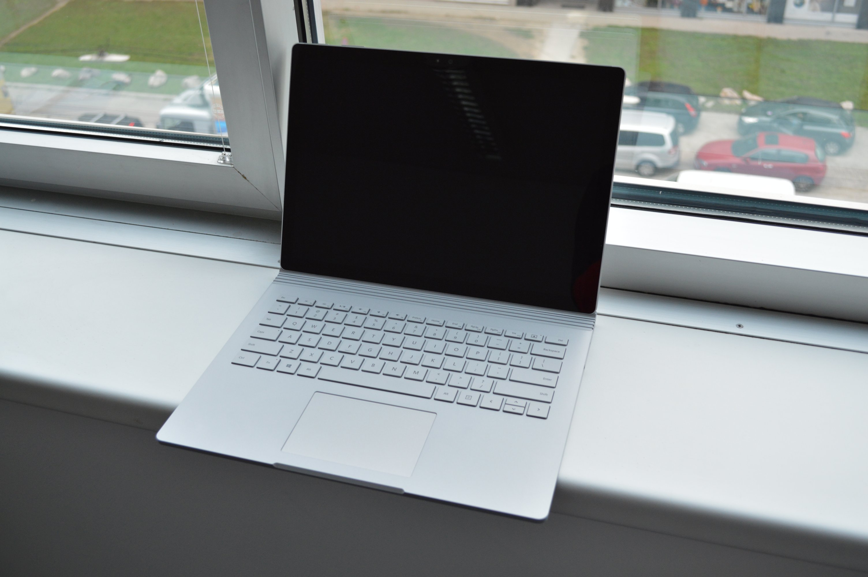 Surface Book standing on a window-sill.